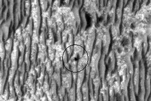 Opportunity Rover as seen by HiRISE. Image taken 1/29/09 at 2.1 South and 354.5 E.